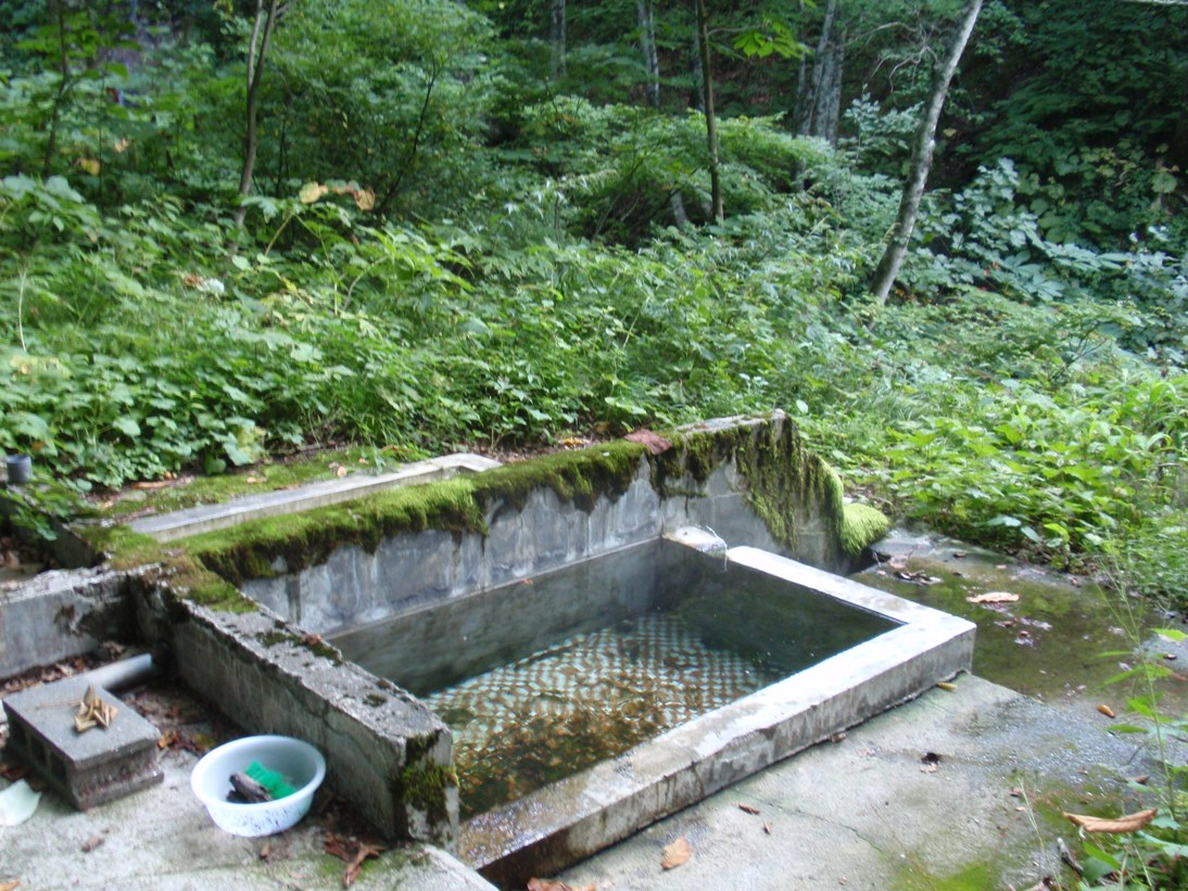 Mitate Onsen in Nishiwaga, Iwate